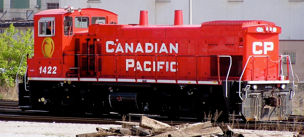 CP 1422, (nee Milw Road 486, Soo 1552) at Cutoff yard lead for CP's Muskego yard in Milwaukee.